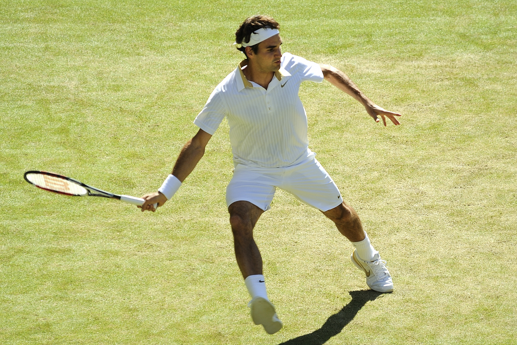 Roger Federer against Guillermo García-López in the 2009 Wimbledon Championships second round